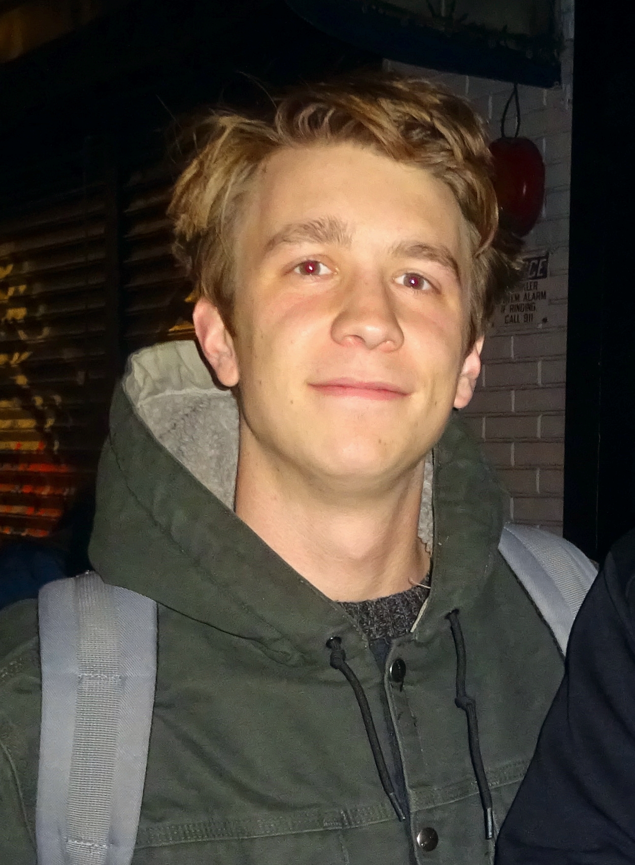 Actor Thomas Mann (left) in 2016.